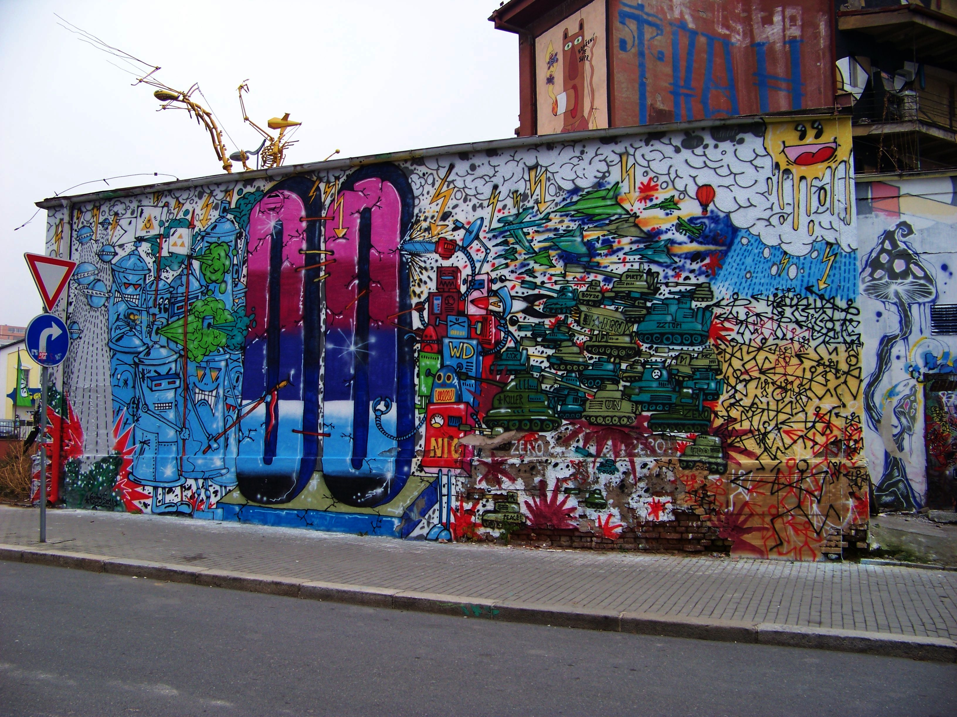 Prague-Libeň, the Czech Republic. Kurta Konráda, Trafačka gallery.